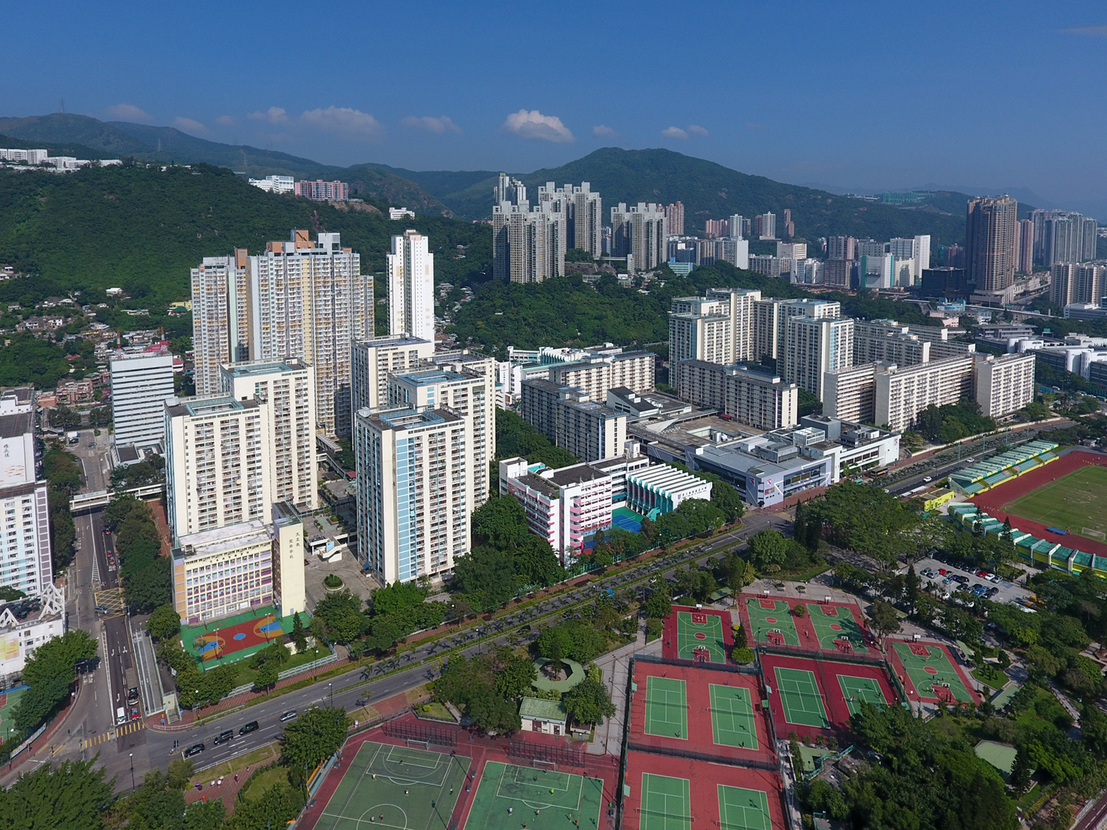 Wo Che Estate